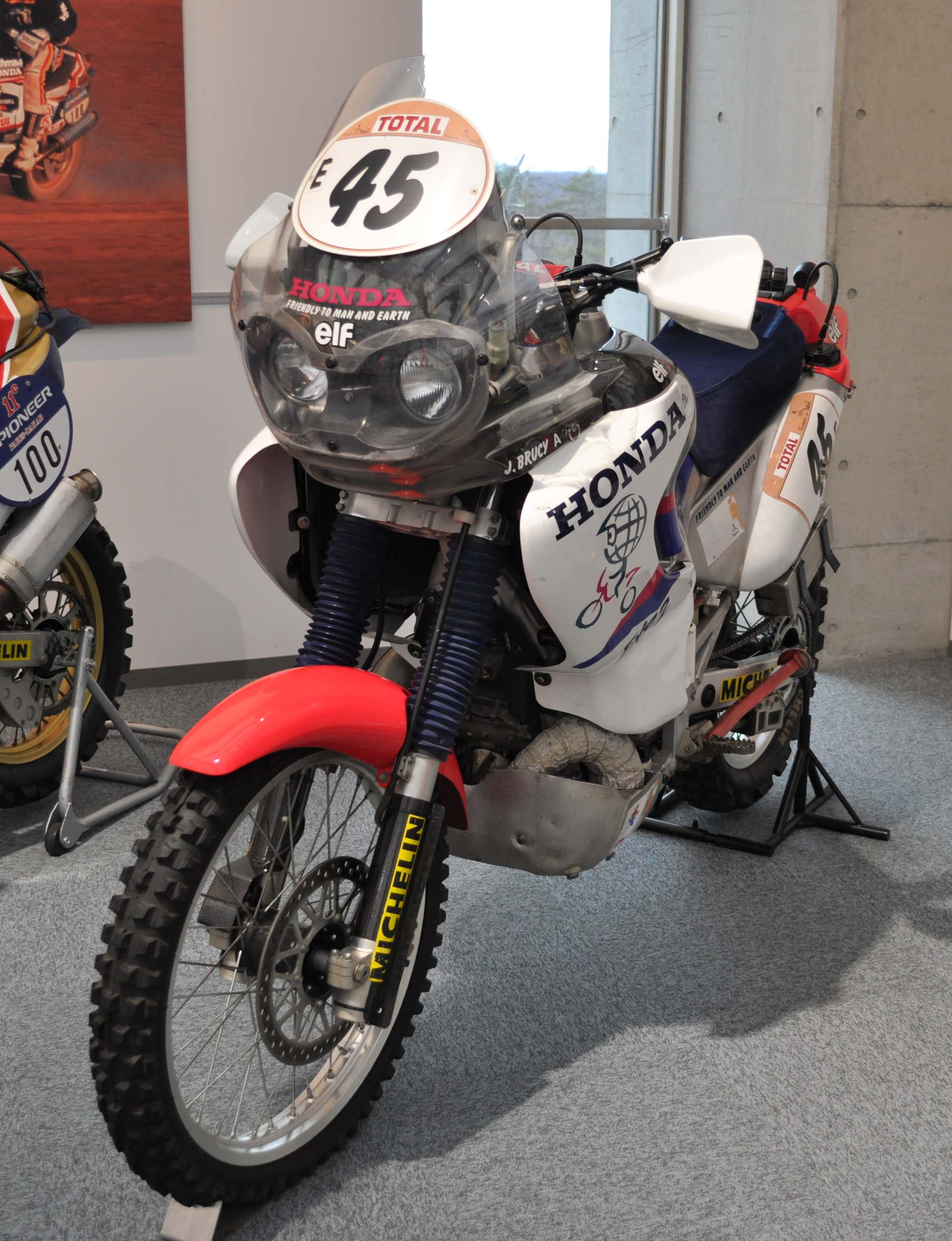 Honda EXP-2 (Jean Brucy, 1995 Granada-Dakar Rally)